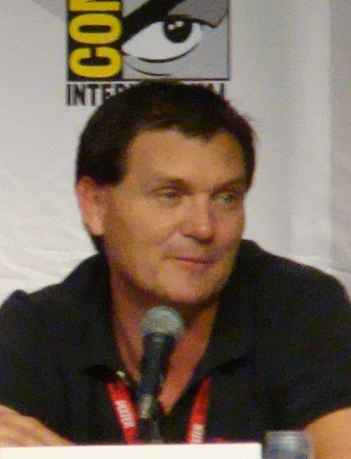 Kevin Williamson